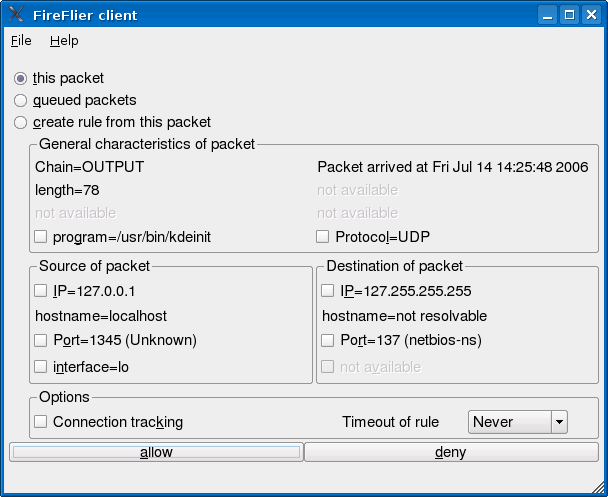 fireflier Personal Firewall Software fuer Linux KDE, interaktiver Dialog